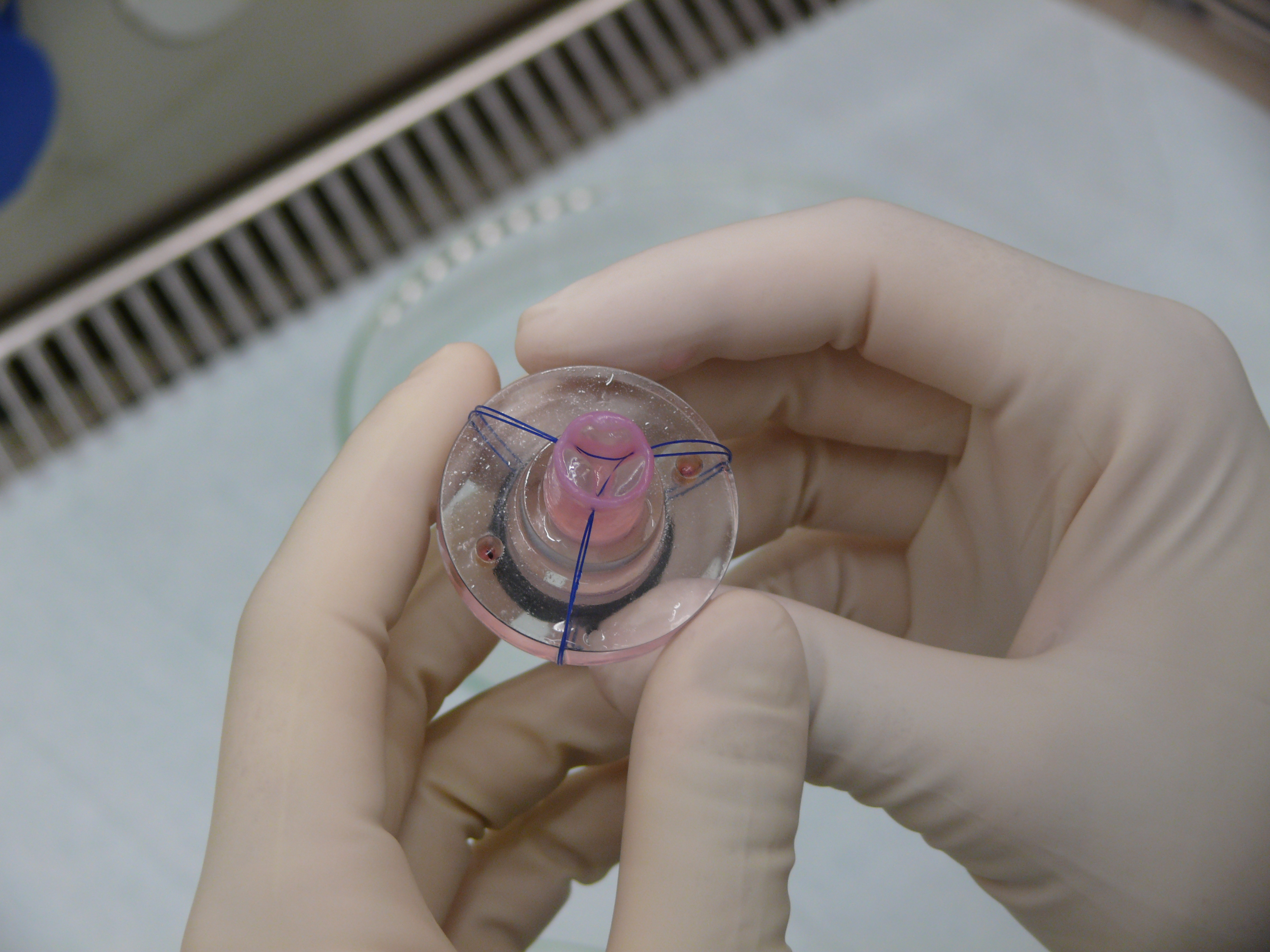 tissue enigineered heart valve